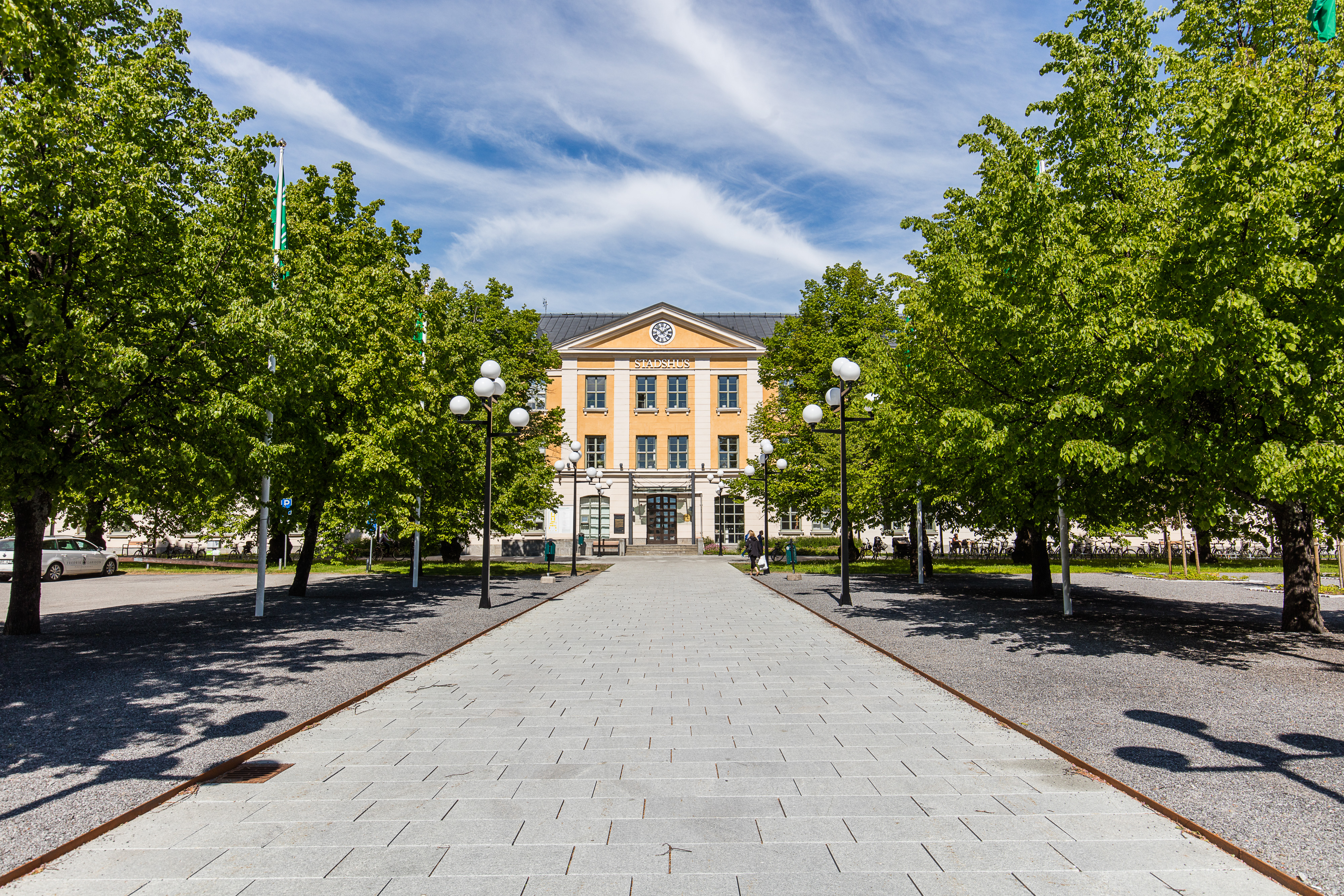 The Alley in front of the city hall in Umeå, Sweden.